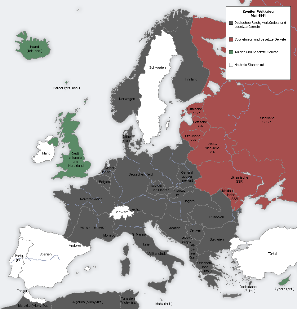 Map showing the Nazi and Soviet-controlled borders of Europe by the end of May/beginning of June 1941, by the conclusion of the Nazi invasion of the Balkans and before Operation Barbarossa. This PNG image, with captions in German, is derived from a frame from the GIF animation File:Second world war europe animation large de.gif at Wikimedia Commons.